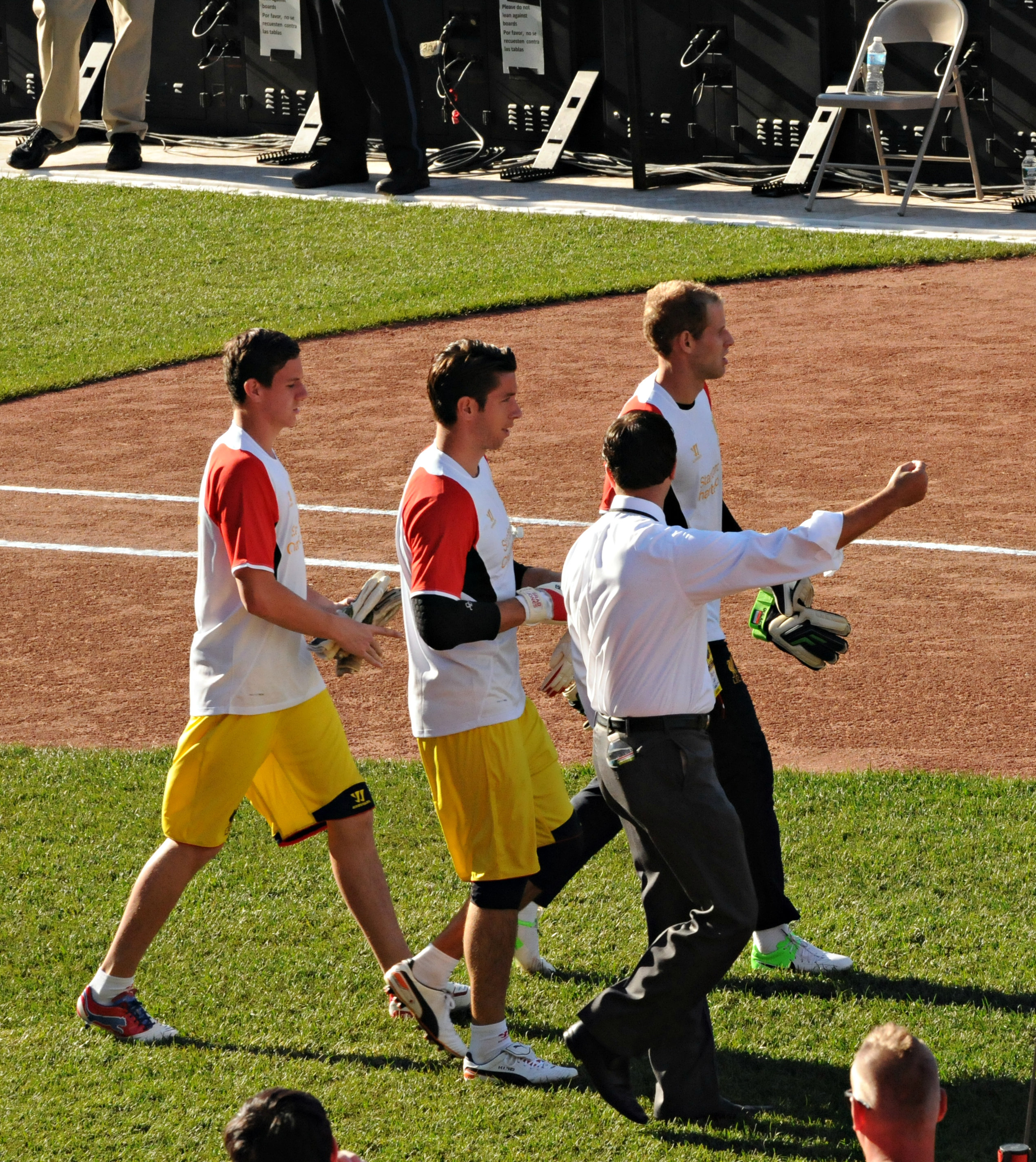 Danny Ward, Brad Jones, Peter Gulacsi before the game between Liverpool and AS Roma at Fenway Park, 25 July 2012.